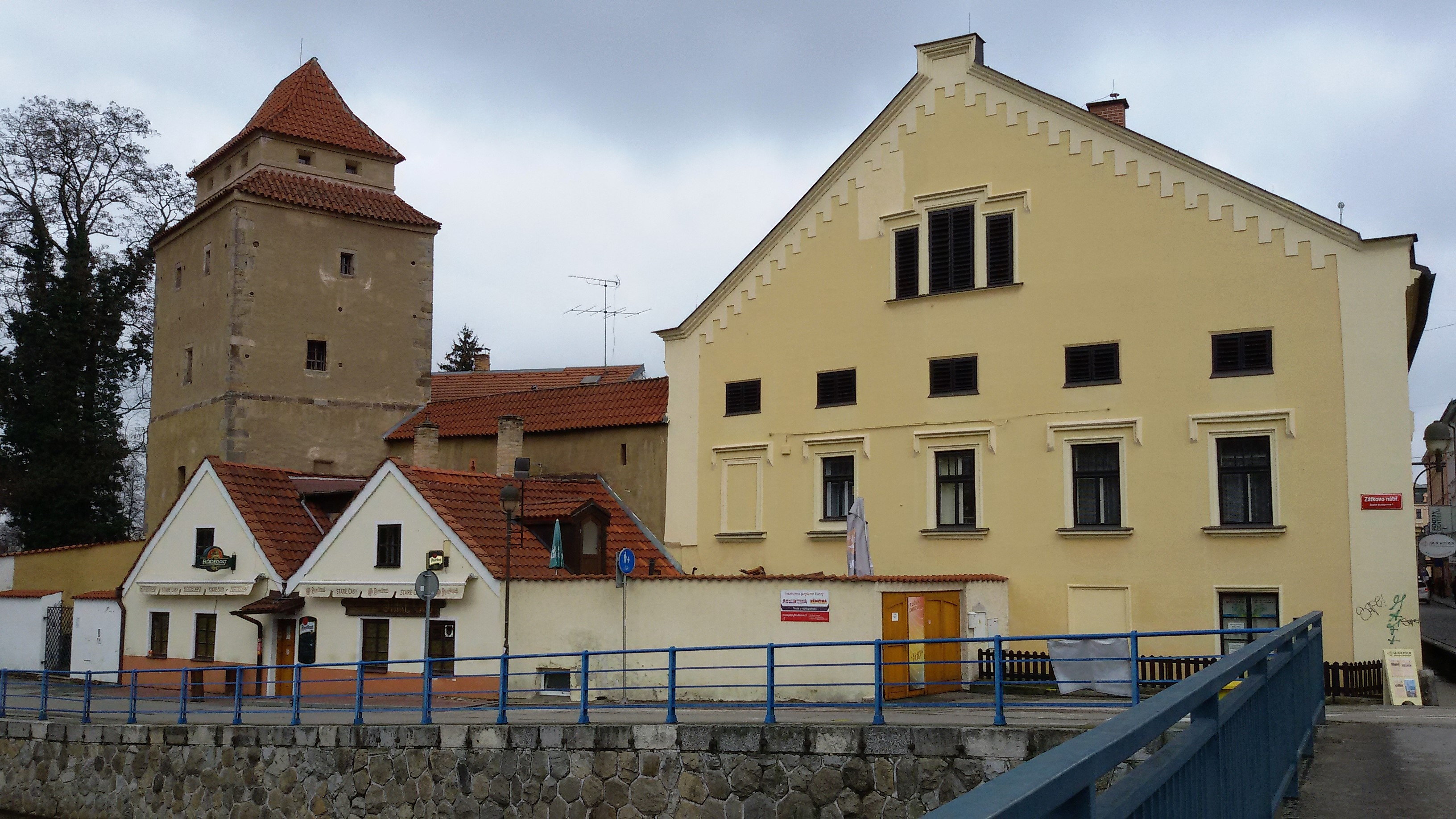 Iron Maiden Tower and house No. 12 in Biskupská Street as seen from the south. České Budějovice, South Bohemian Region, Czechia.